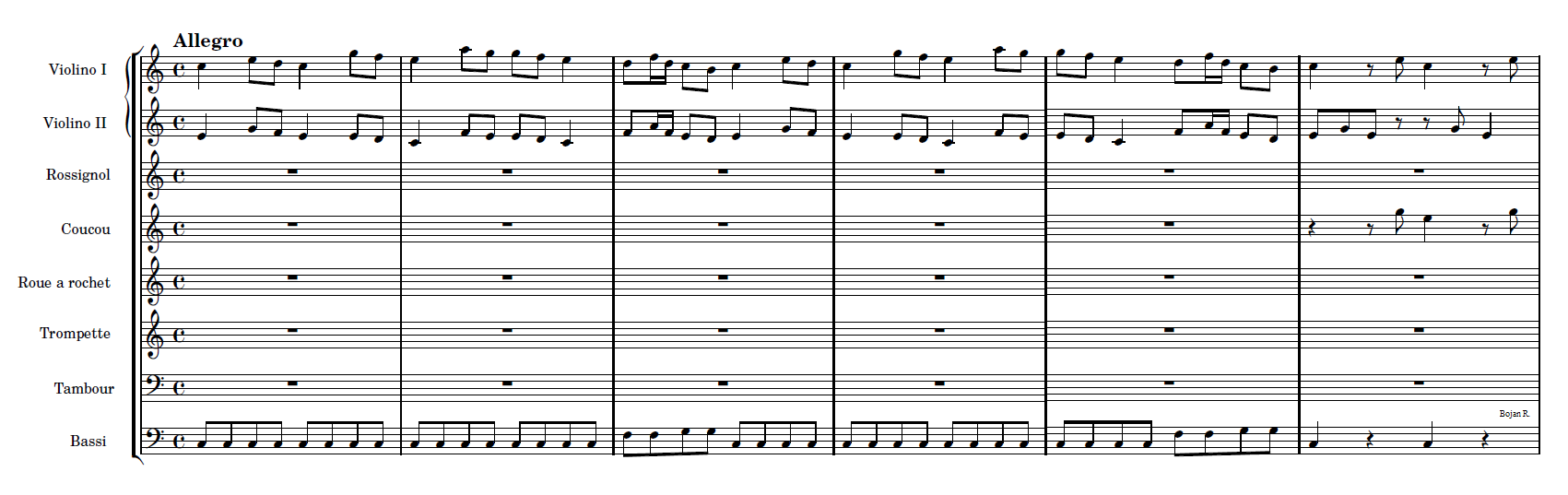 First six bars of the Toy Symphony by Leopold Mozart